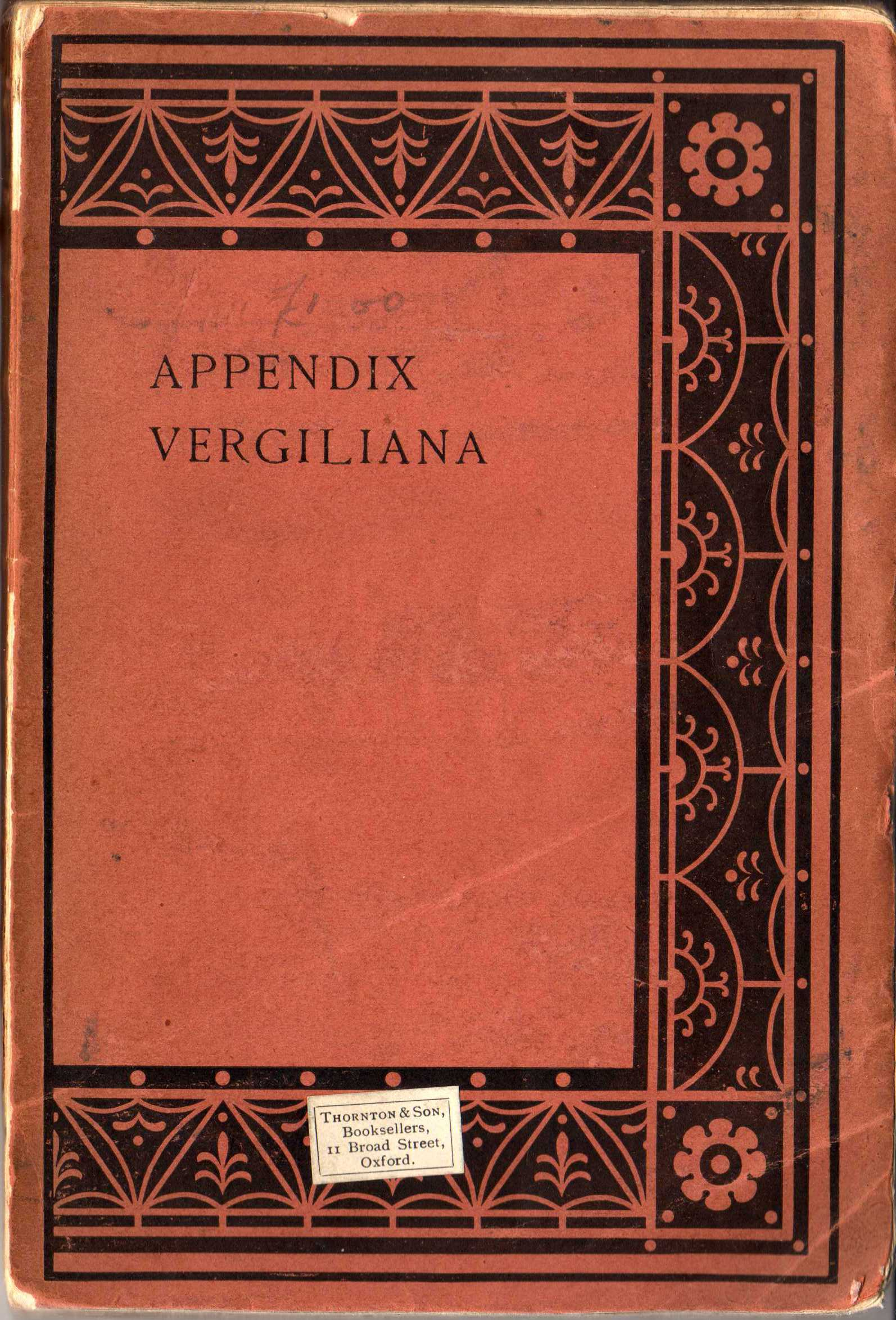 Book cover, appendix Vergiliana publ. Oxford, 1927